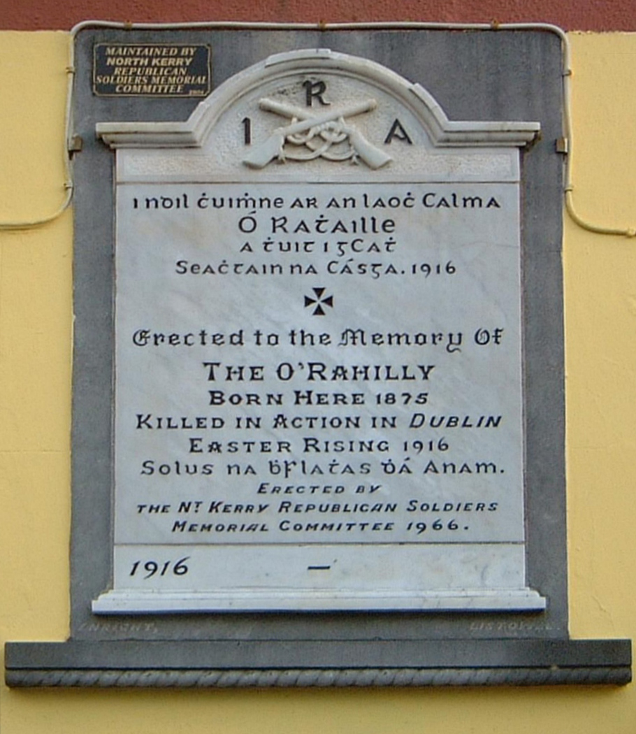 Monument to The O'Rahilly in Ballylongford.